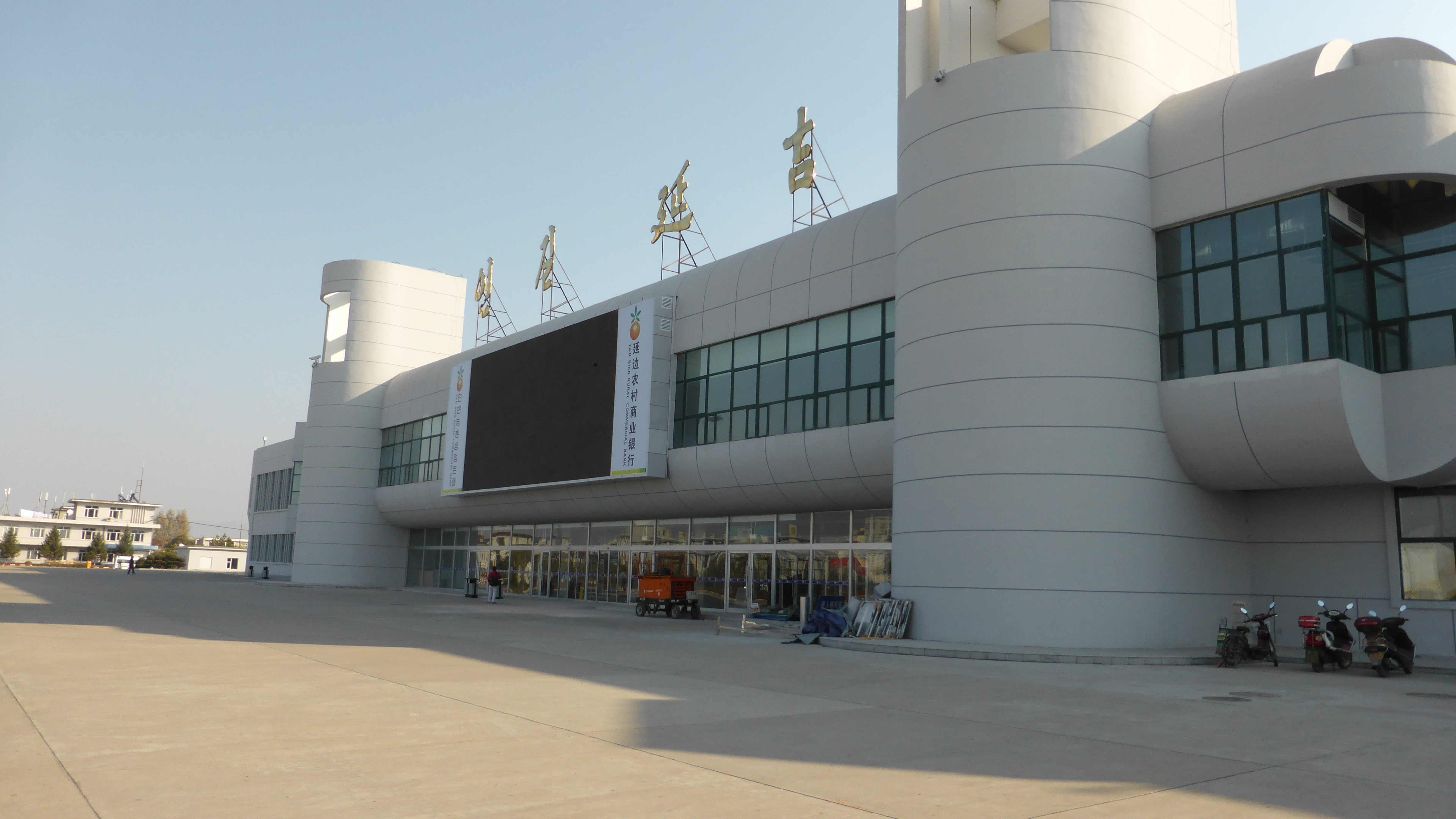 Yanji Airport Terminal